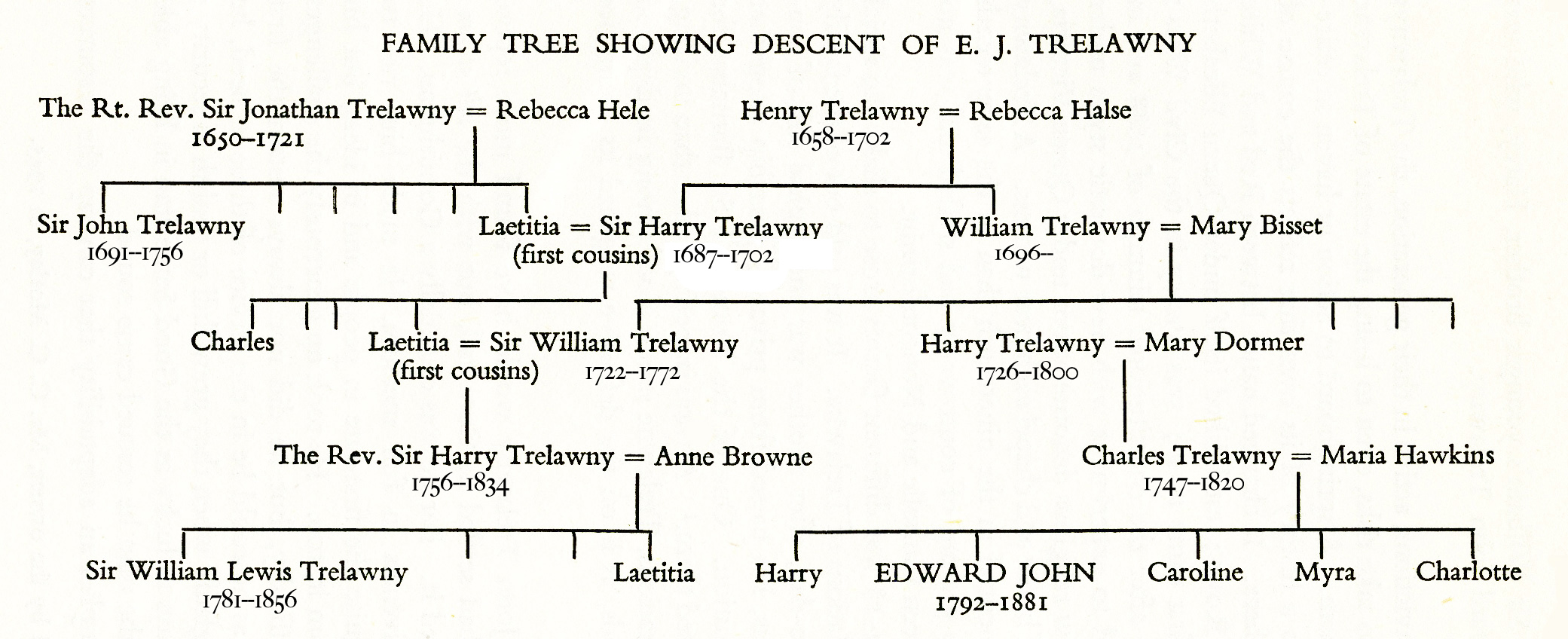 Family tree showing decent of Edward John Trelawny.